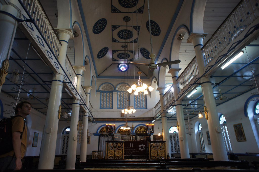 Musmeah Yeshua synagogue interior in Yangon/Rangoon, Burma.